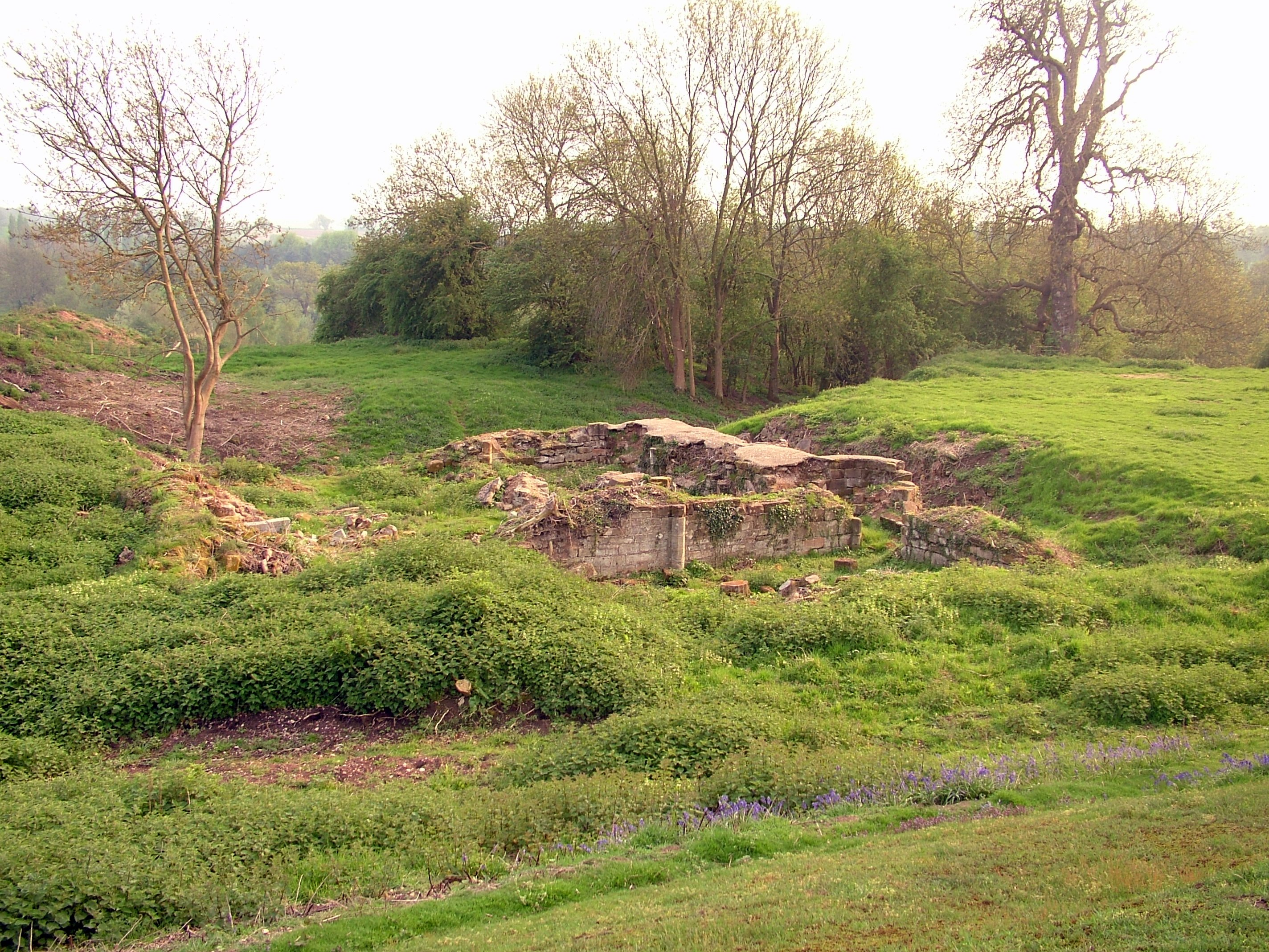 Ruins of an ancient building in Baginton - an old mansion and possibly the site of Baginton Castle. The ruins are of an old mansion, and no ruins of a Baginton Castle have been found.